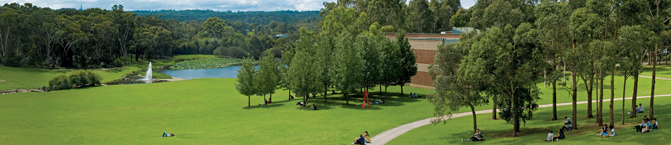 MGSM North Ryde Campus Image